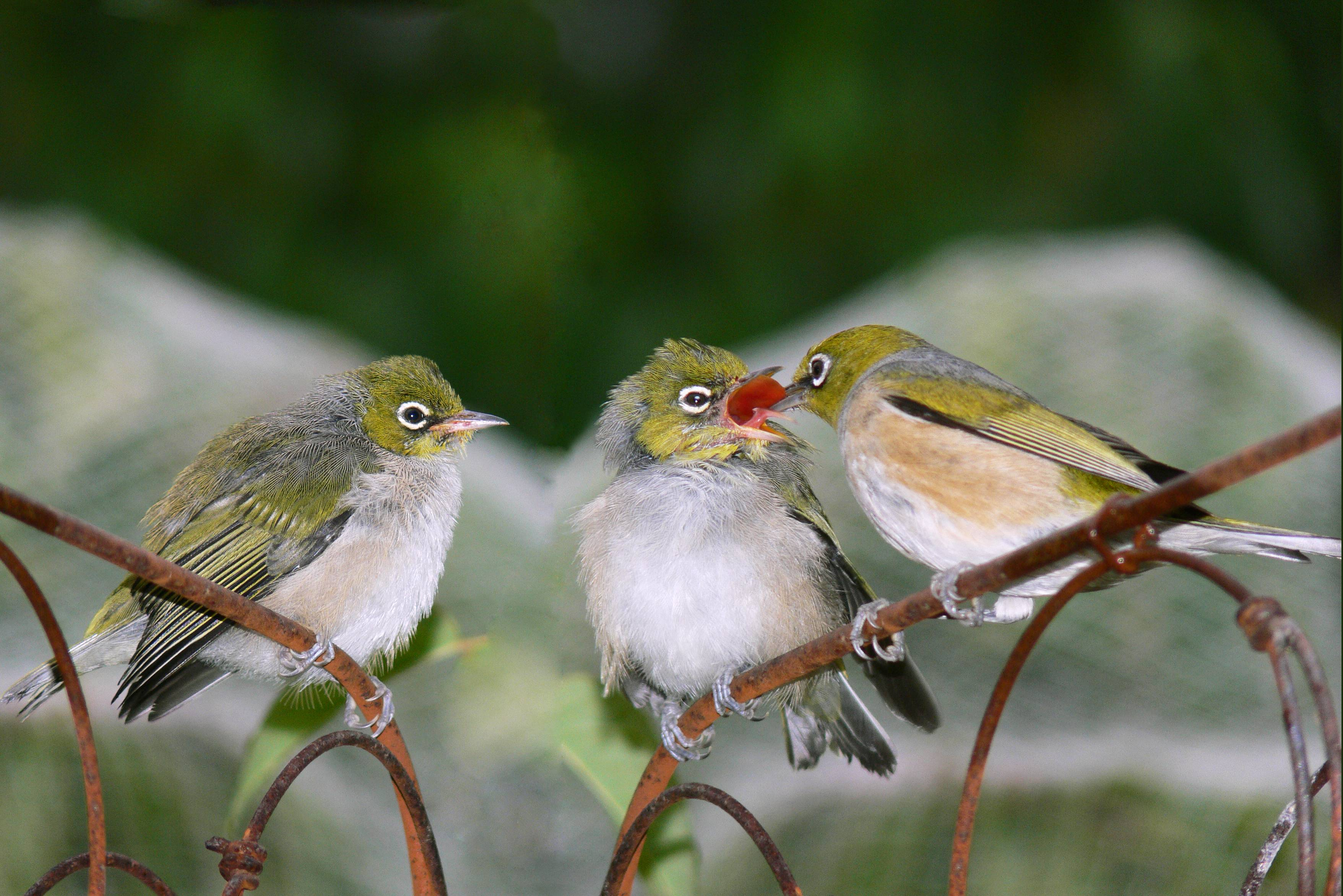 A pair of juvenile silvereyes - Zosterops lateralis - being fed fruit